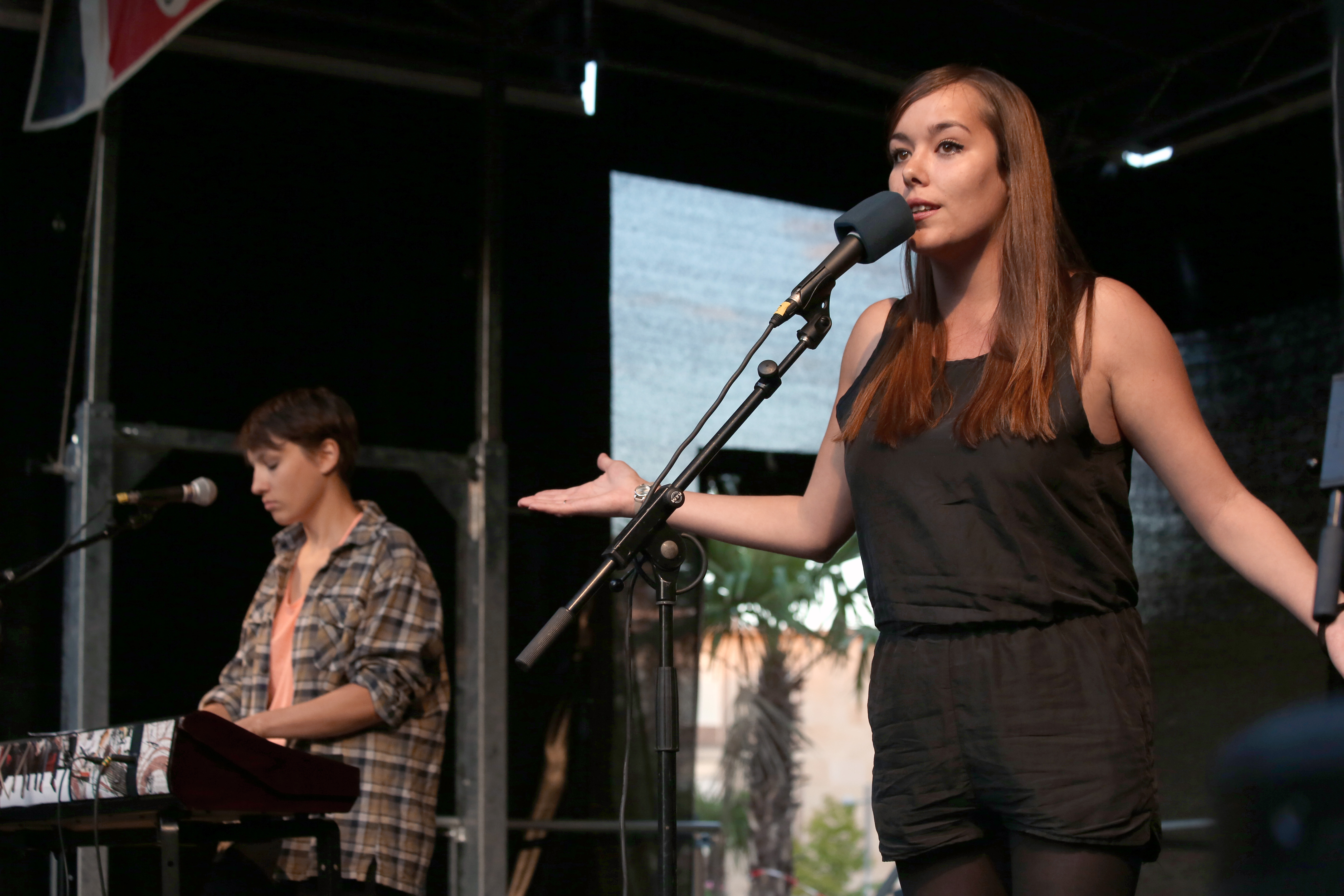 Yasmo feat. Giga Ritsch - concert at "Fest für den Rundfunk" at Karlsplatz in Vienna, Austria.